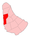 Map of Barbados showing Saint James parish.